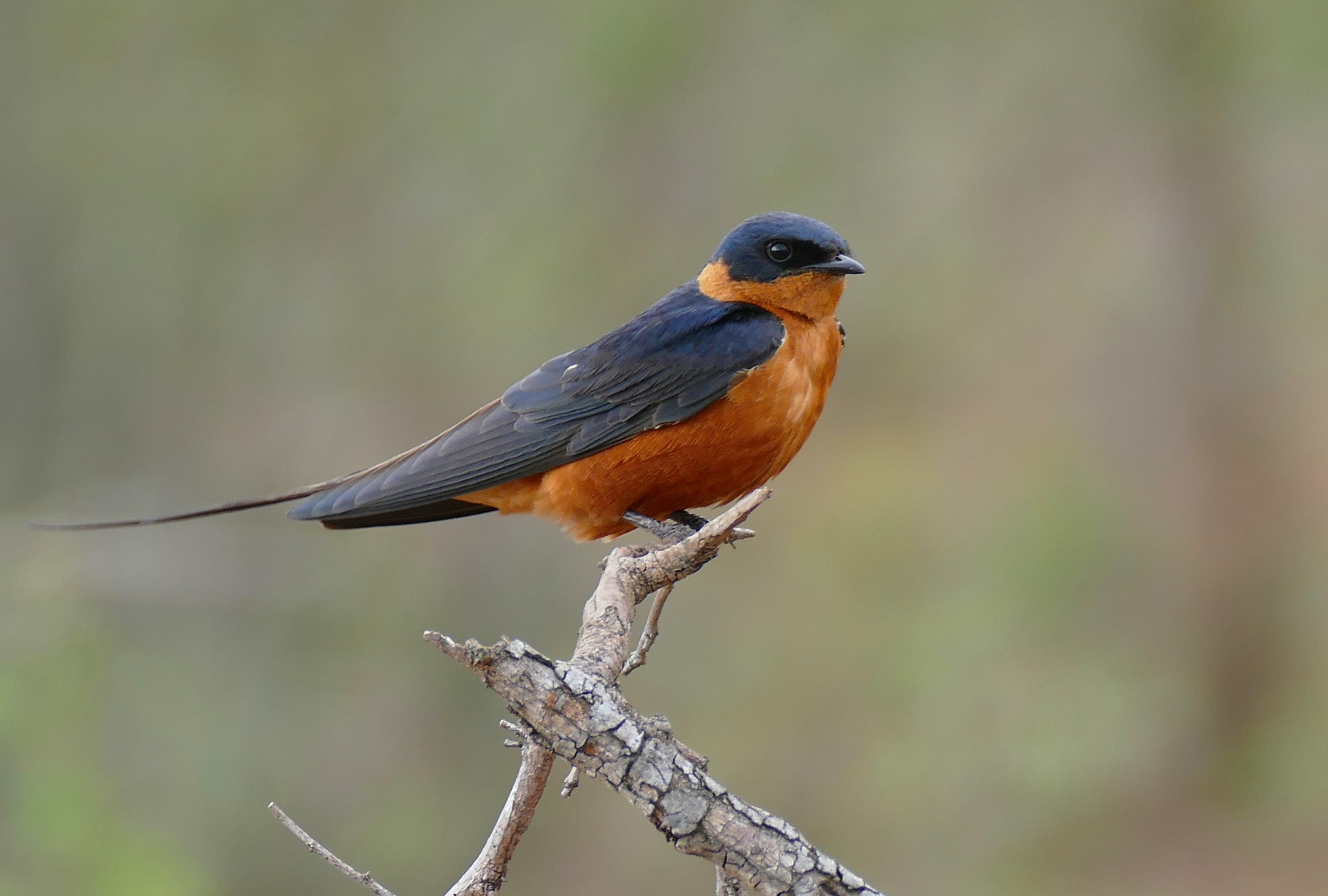 H10 Road North of Lower Sabie, Kruger NP, Mpumalanga, SOUTH AFRICA